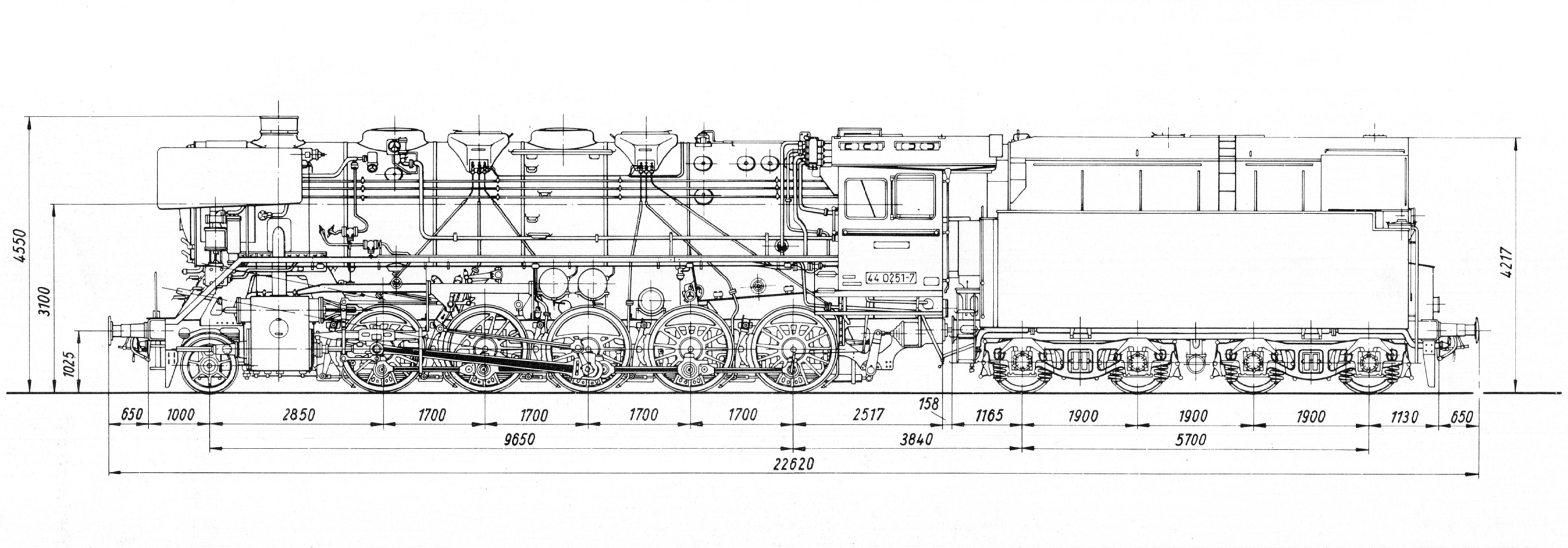 Sectional drawing of the steam locomotive number 44 0251-7 of the Deutsche Reichsbahn